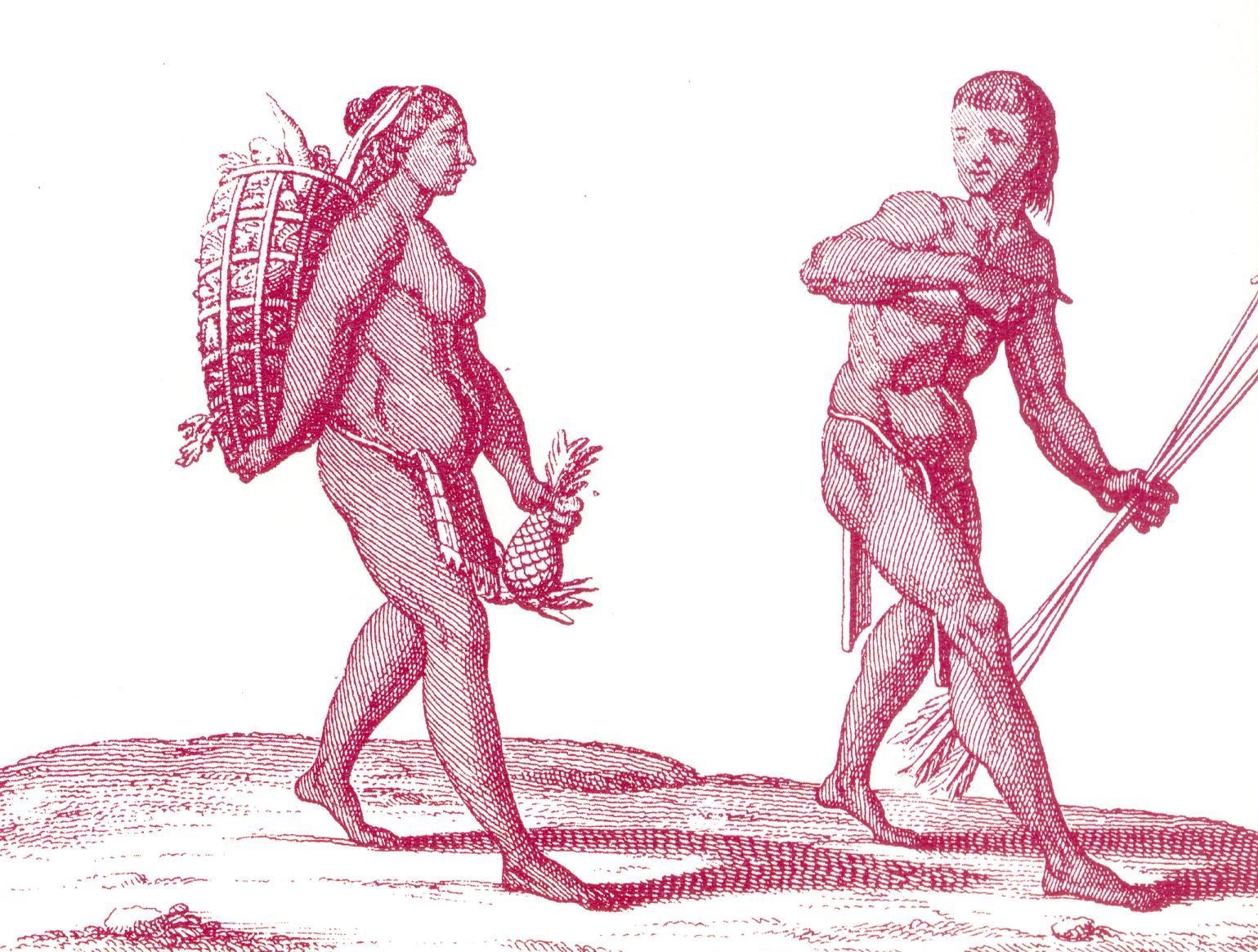 A Kali'na hunter with a woman gatherer.